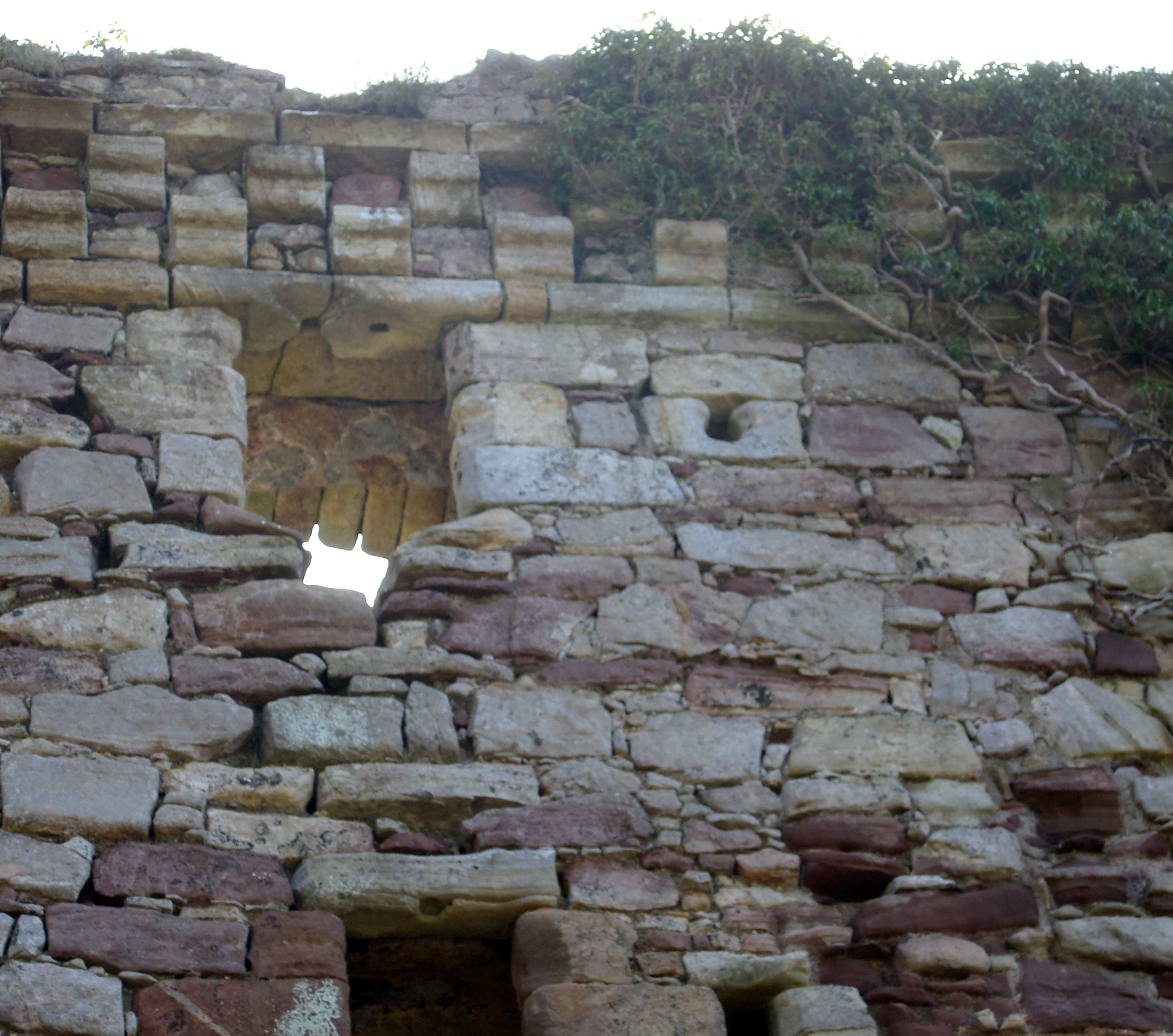 Fairlie Castle - a Gun Port lying to the right of a window. Fairlie, North Ayrshire, Scotland.